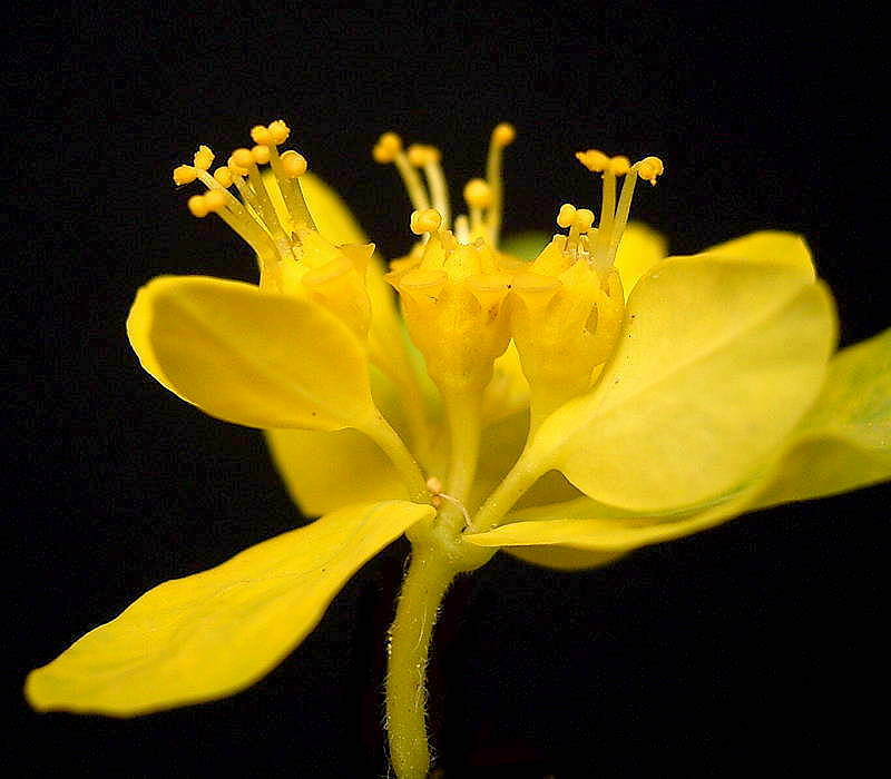 Euphorbia epithymoides